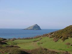 Mewstone